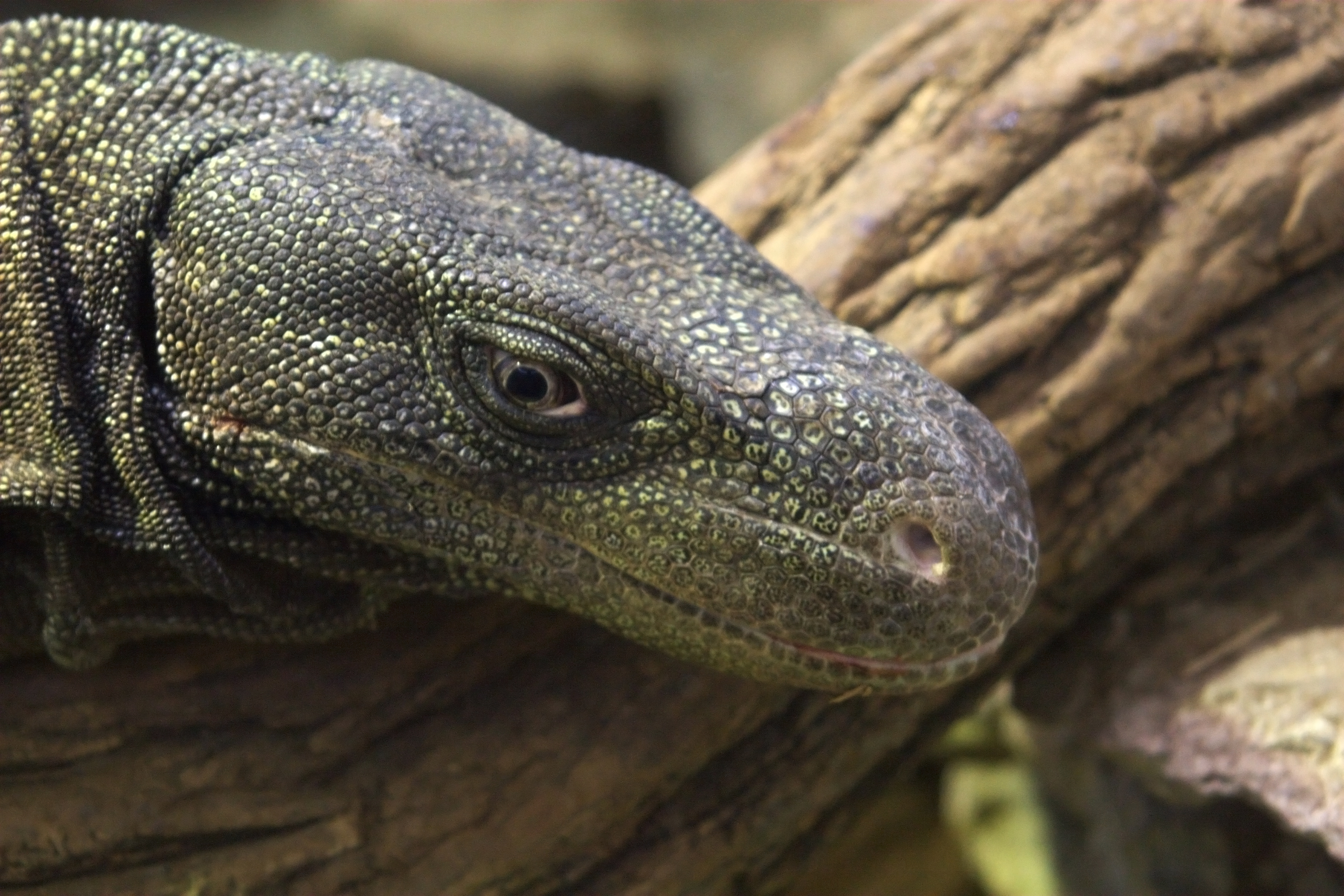 A Salvadori's Monitor at the Cincinnati Zoo.